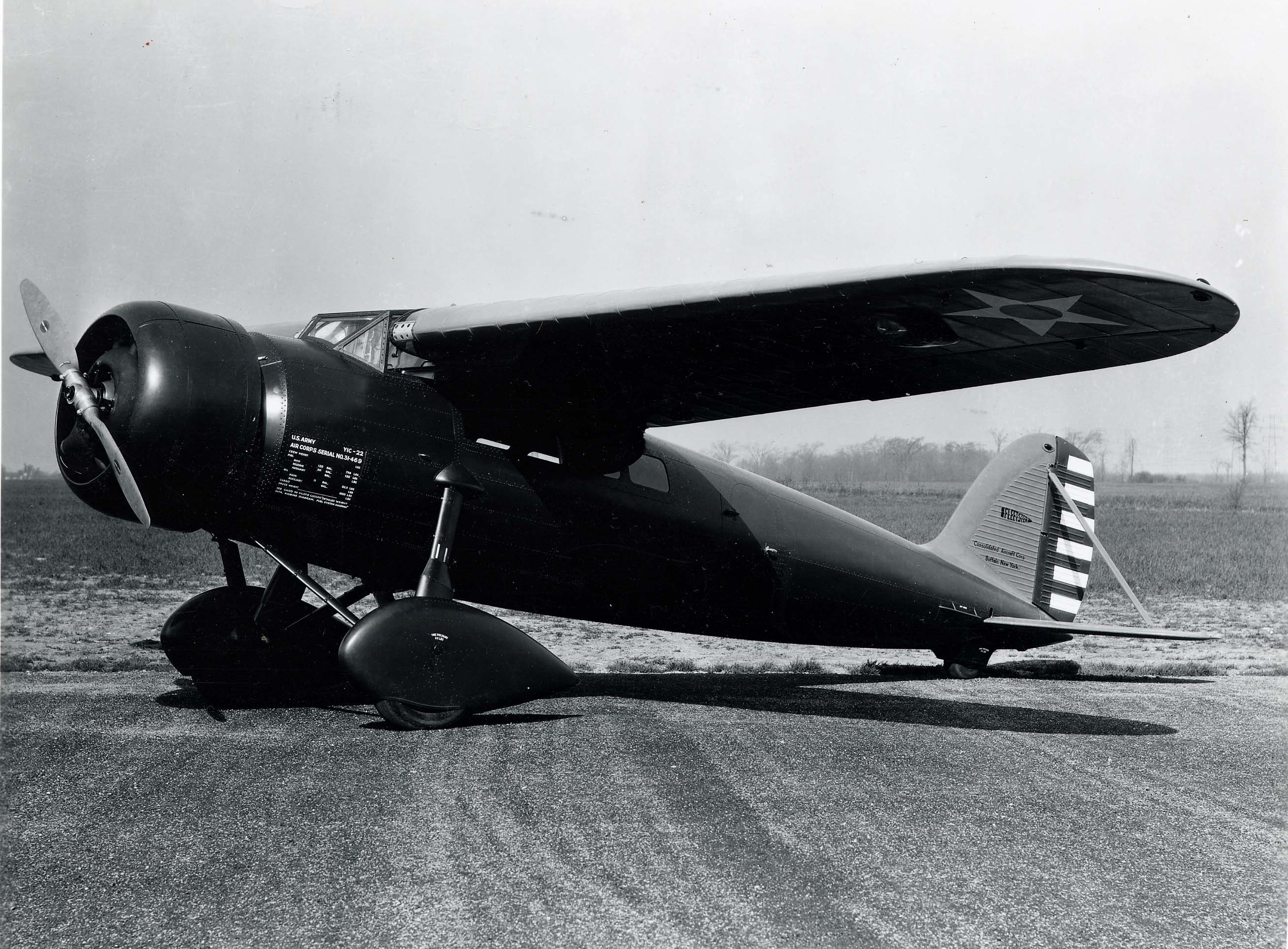 Consolidated Y1C-22 "Fleetster" transport